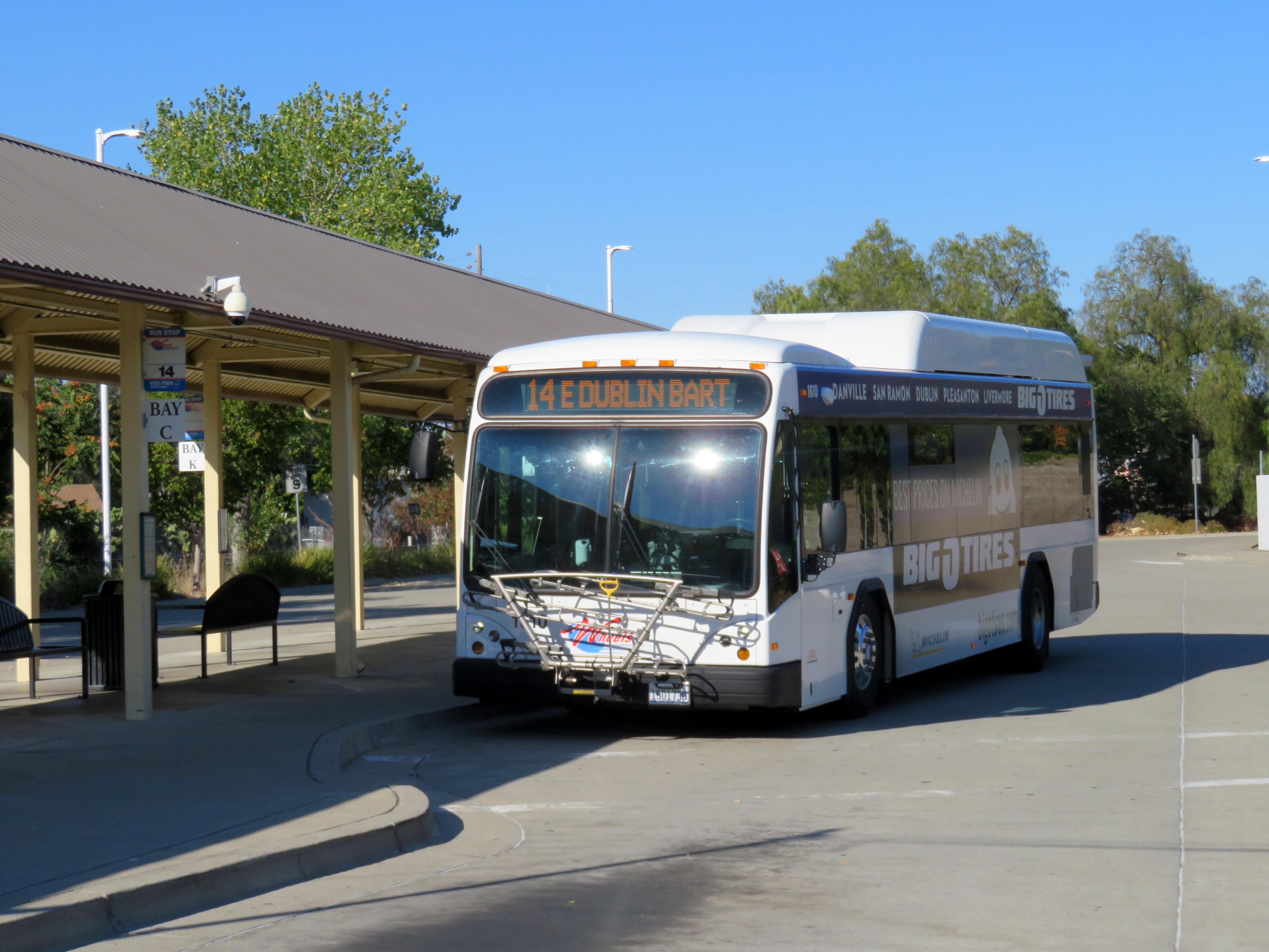 WHEELS bus at Livermore station in July 2018